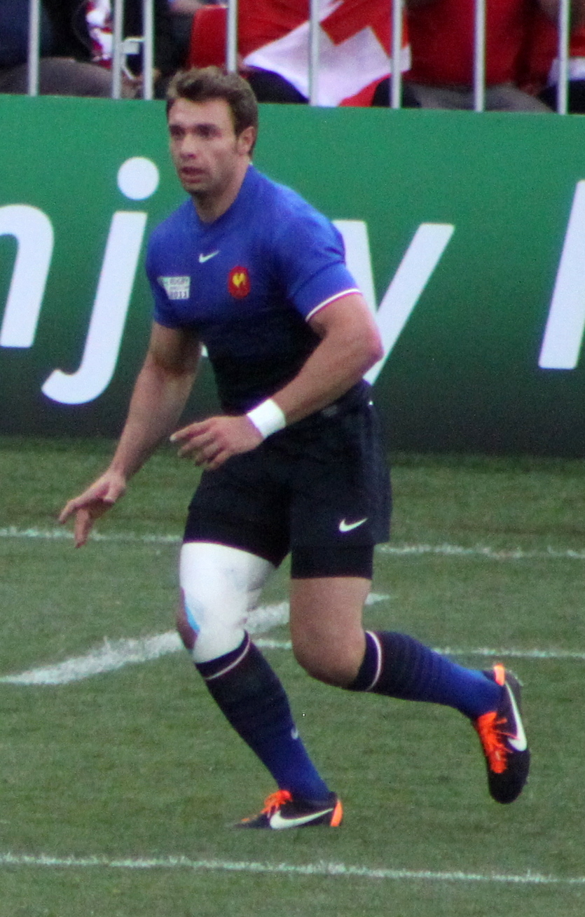 French rugby union player Vincent Clerc during 2011 Rugby World Cup match against Tonga.